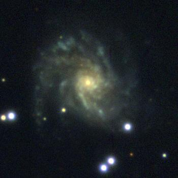 PanSTARRS image of NGC 710.